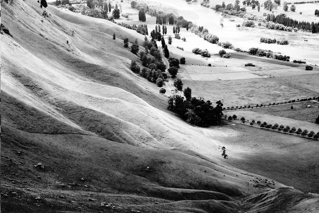 'Equalized' version of Unequalized Hawkes Bay NZ.jpg. Created to illustrate histogram equalization.